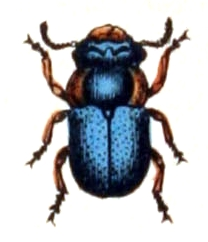 Cheilotoma musciformis, from Calwer's Käferbuch, Table 45, Picture 12. Taxonomy was updated to 2008, using mostly the sites Fauna Europaea and BioLib. Please contact Sarefo if the determination is wrong!